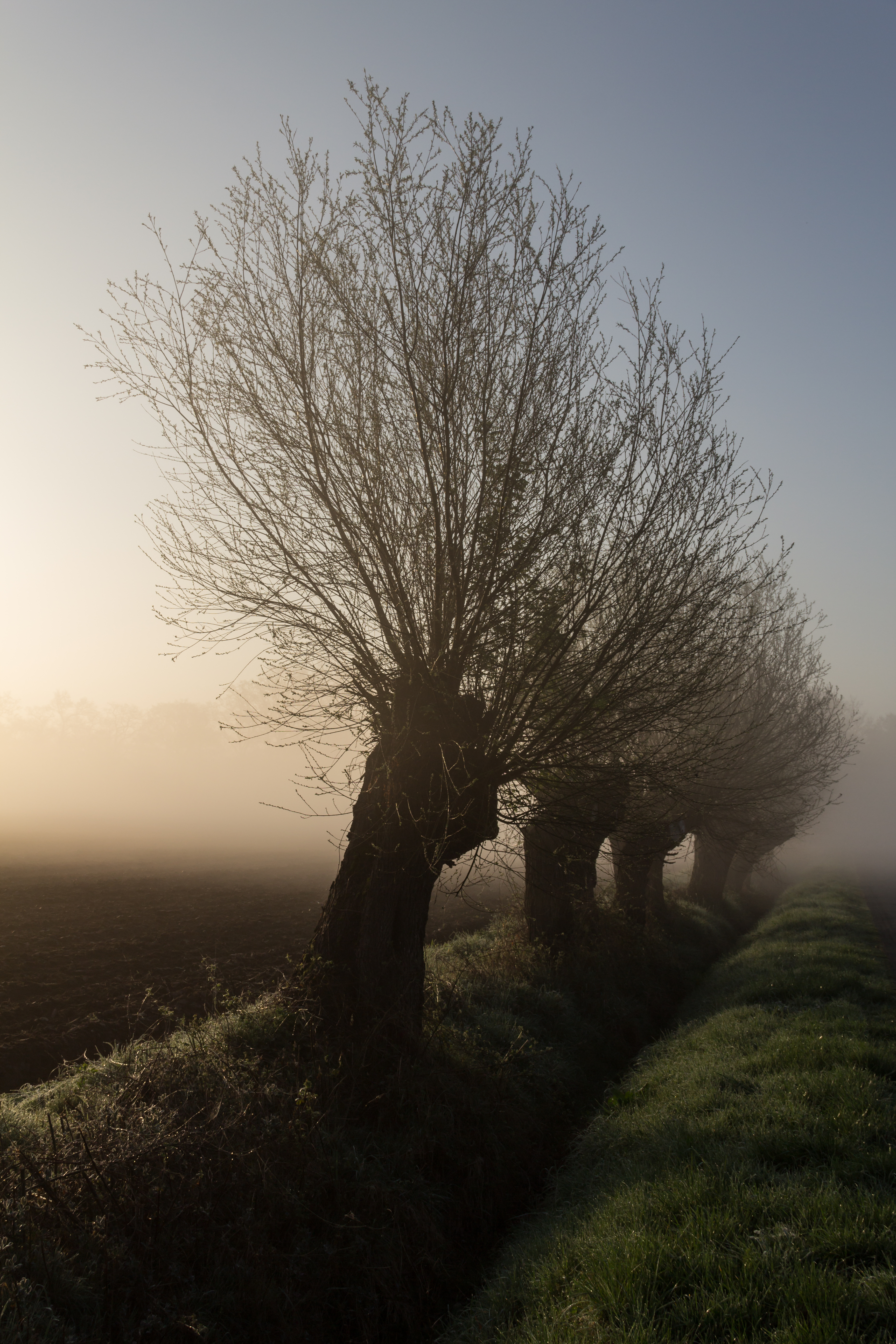 Willow trees in the morning fog in Dernekamp in Dülmen, North Rhine-Westphalia, Germany